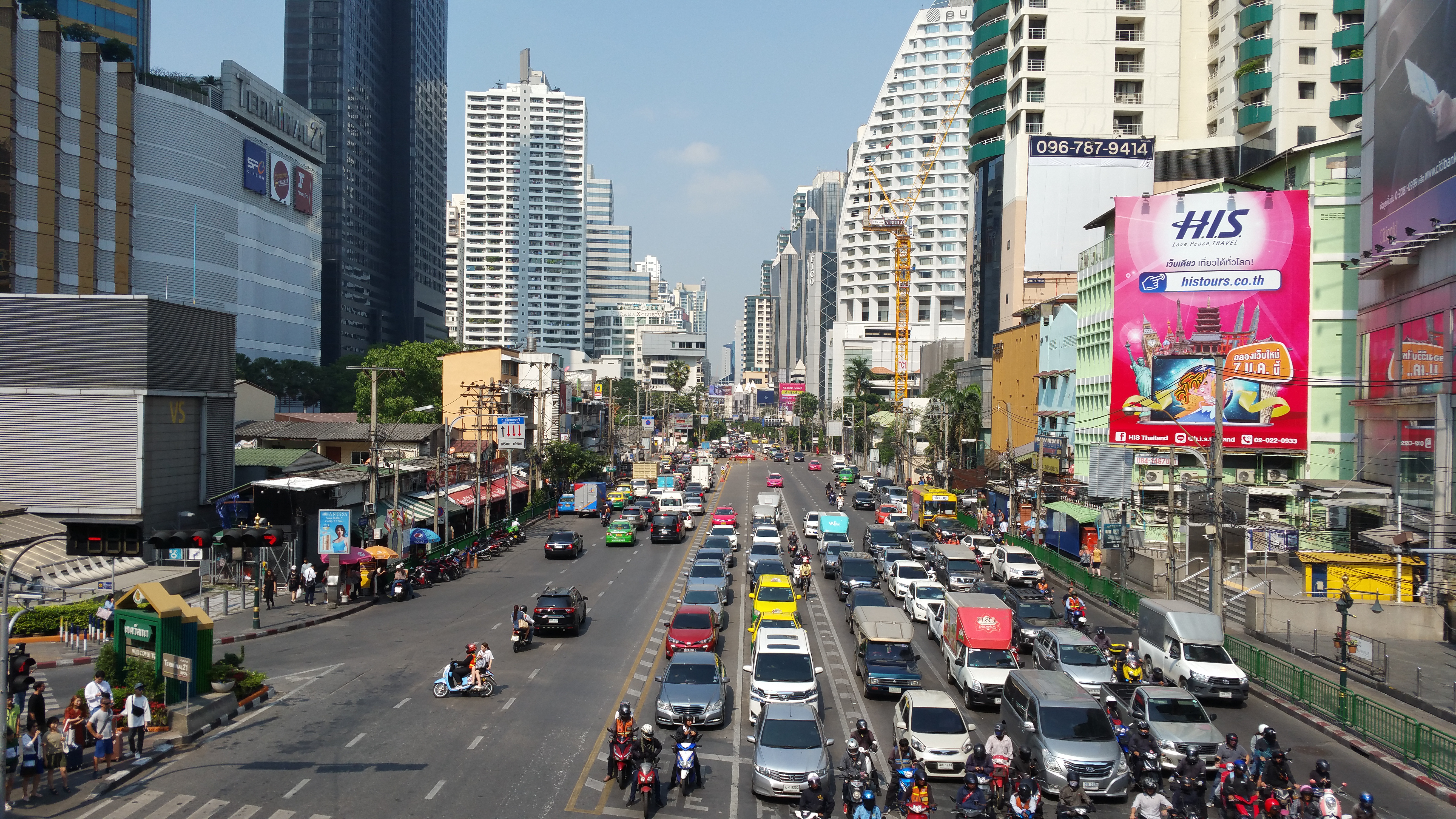 Thanon Asok Montri in Bangkok, looking north from the pedestrian overpass at the Sukhumvit Road intersection.